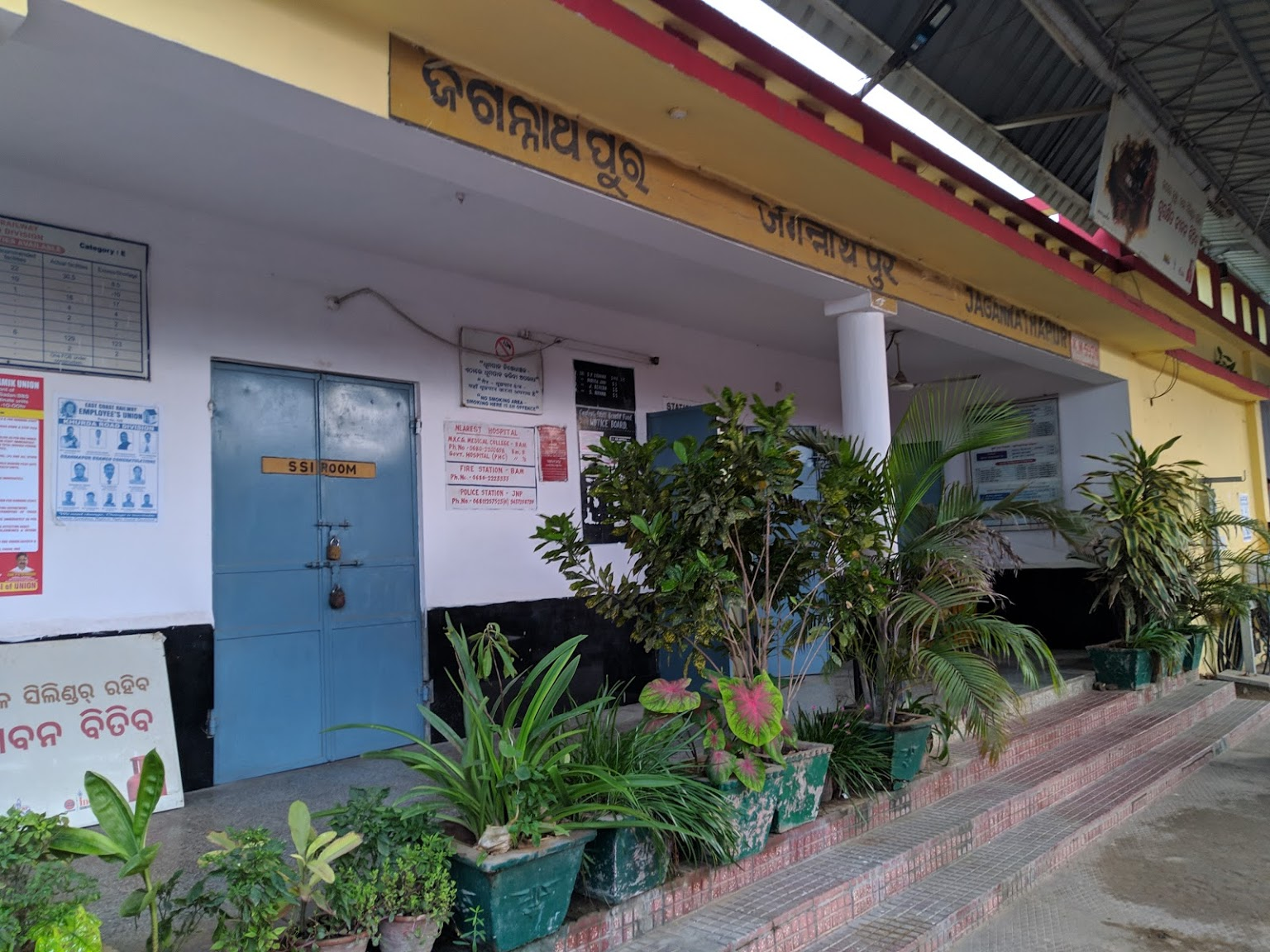 This is the Picture of Jagannathapur railway station